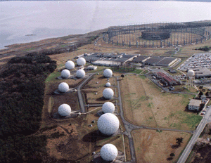 Aerial photo of Security Hill at Misawa AB, Japan taken some time during the 1990s.